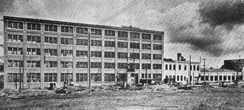 Harley Davidson Motor Co. October 21, 1911